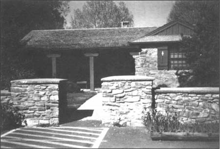 Bly Ranger Station Office in Bly, Oregon